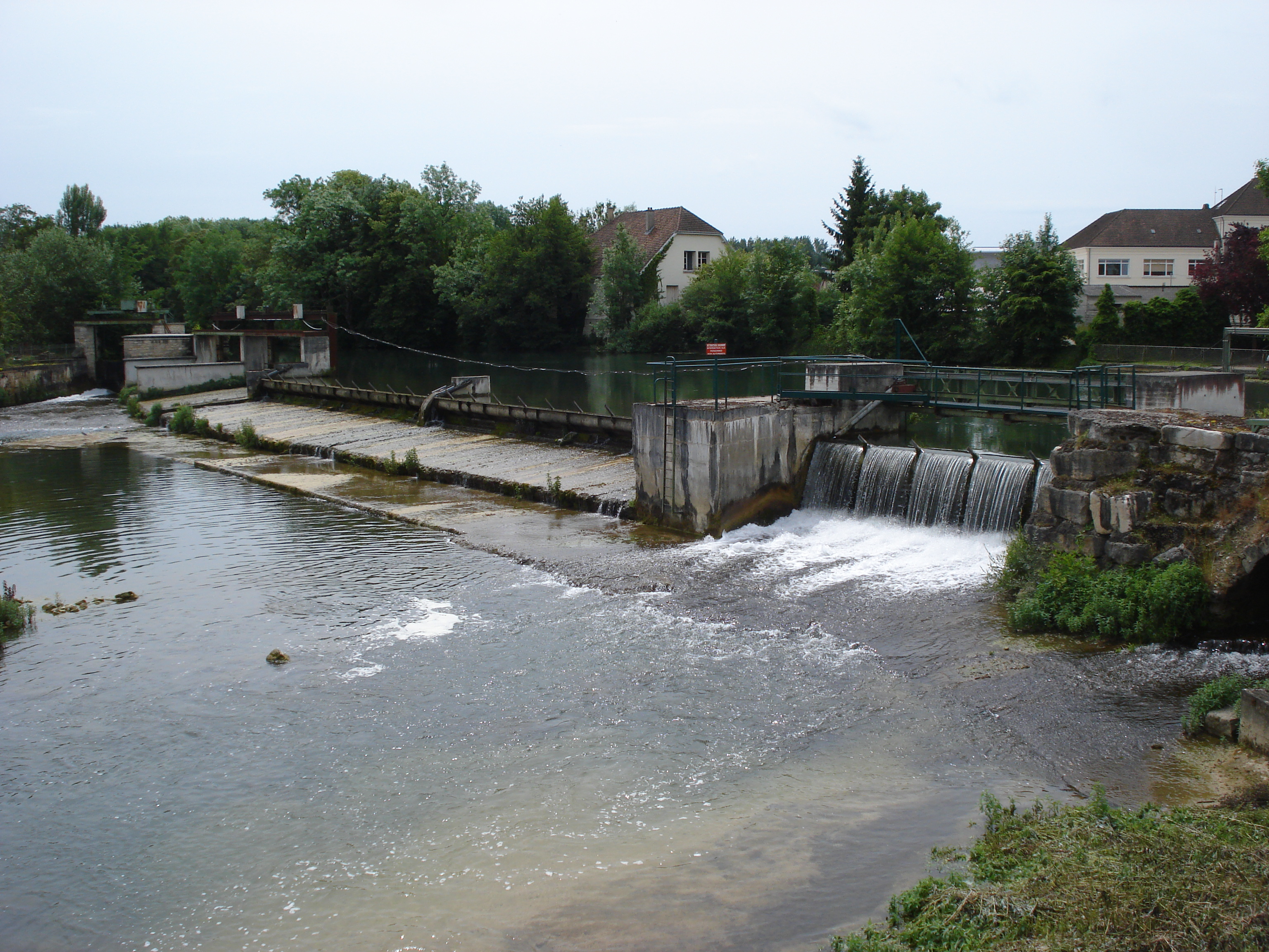 La Seine à Bar-sur-Seine.